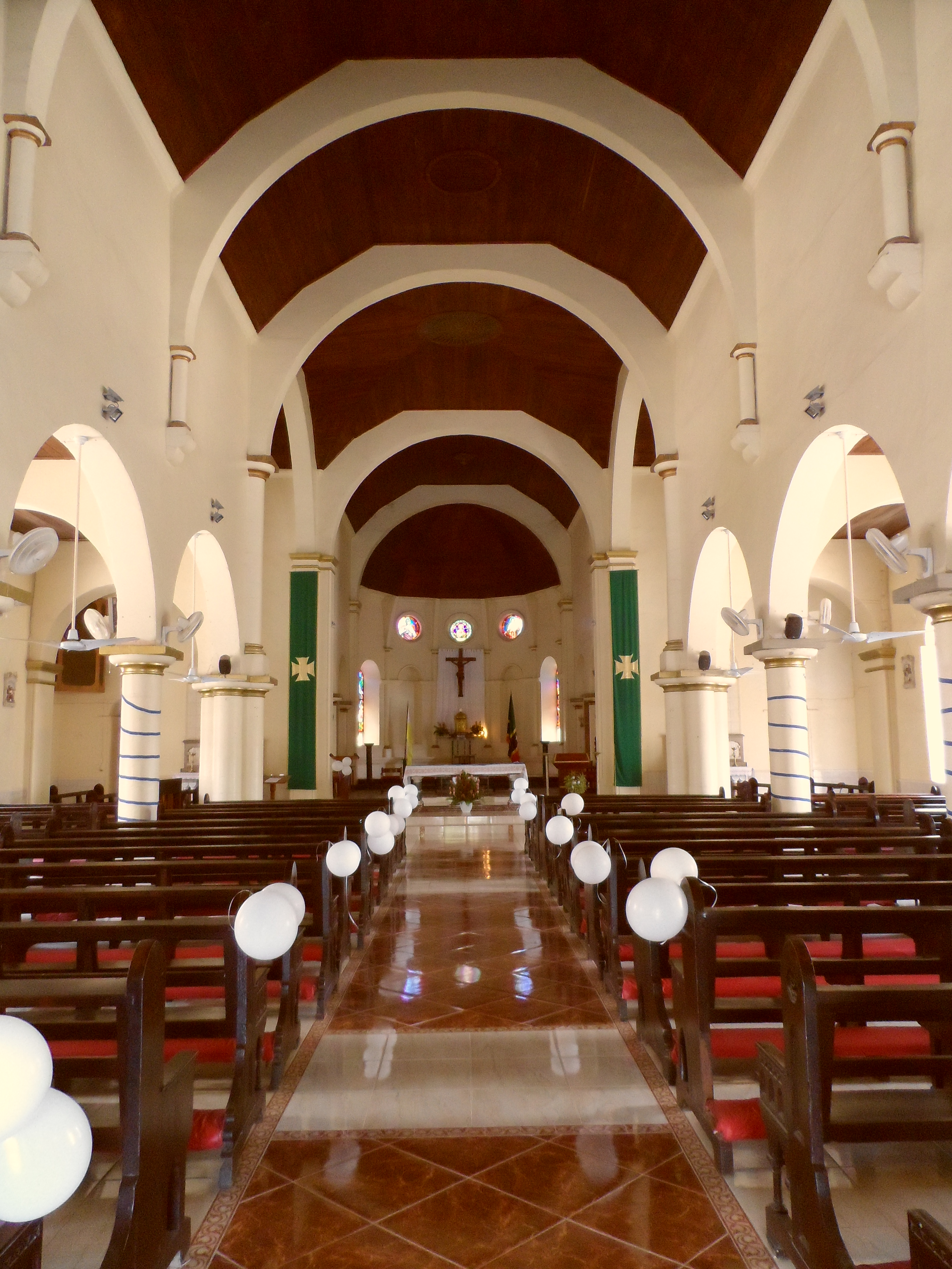 Interior of the Basseterre Co-Cathedral of Immaculate Conception of Basseterre, Saint Kitts and Nevis